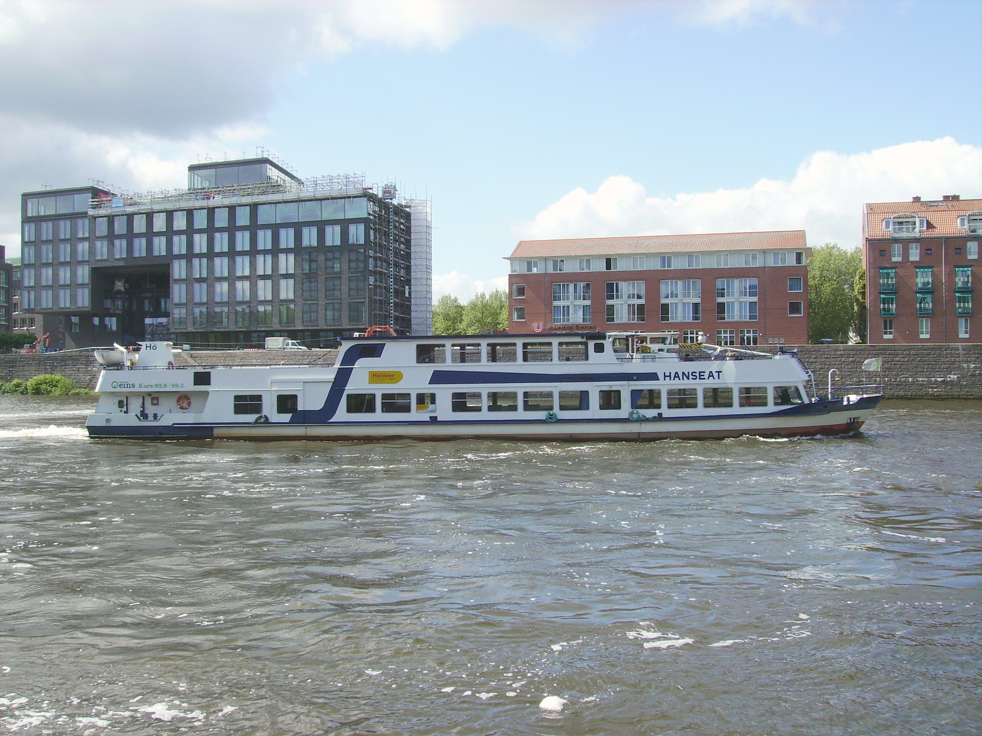 Excursion boat "Hansaet" on the river Weser in Bremen